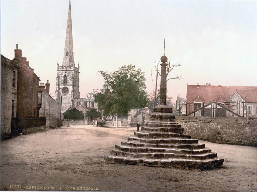 Repton Cross church and school Derbyshire England